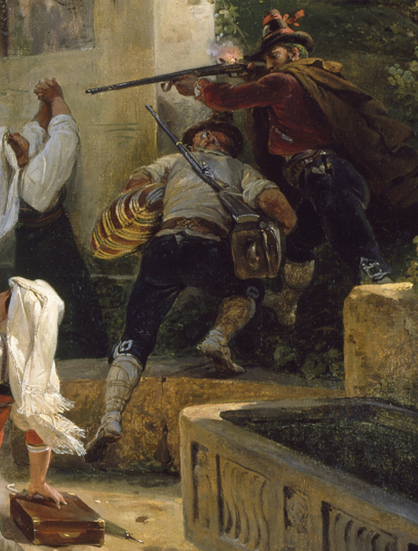 details of Horace Vernet - Italian Brigands Surprised by Papal Troops